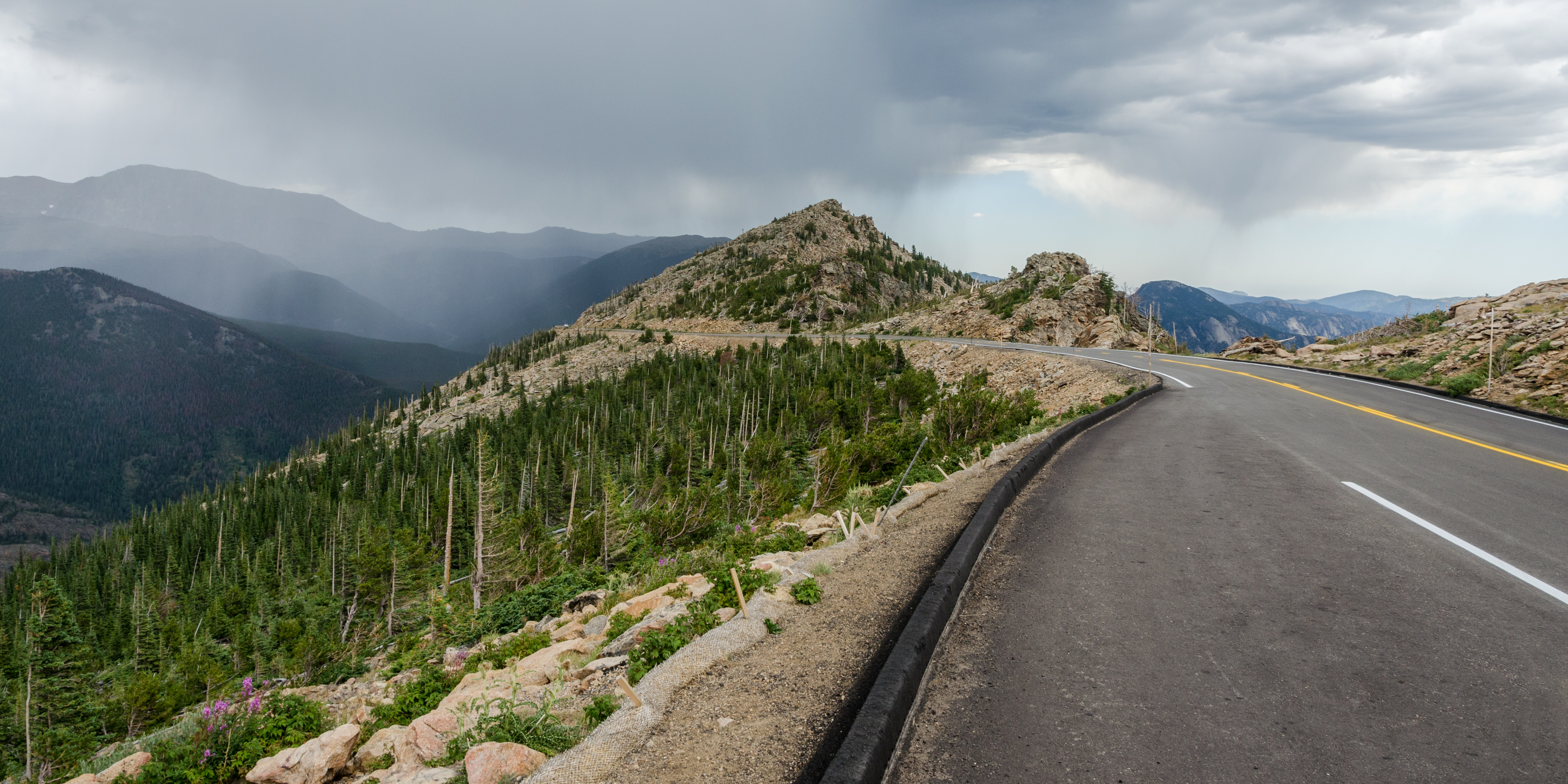 A view of the Trail Ridge Road in Rocky Mountains Natl Park, looking northeast